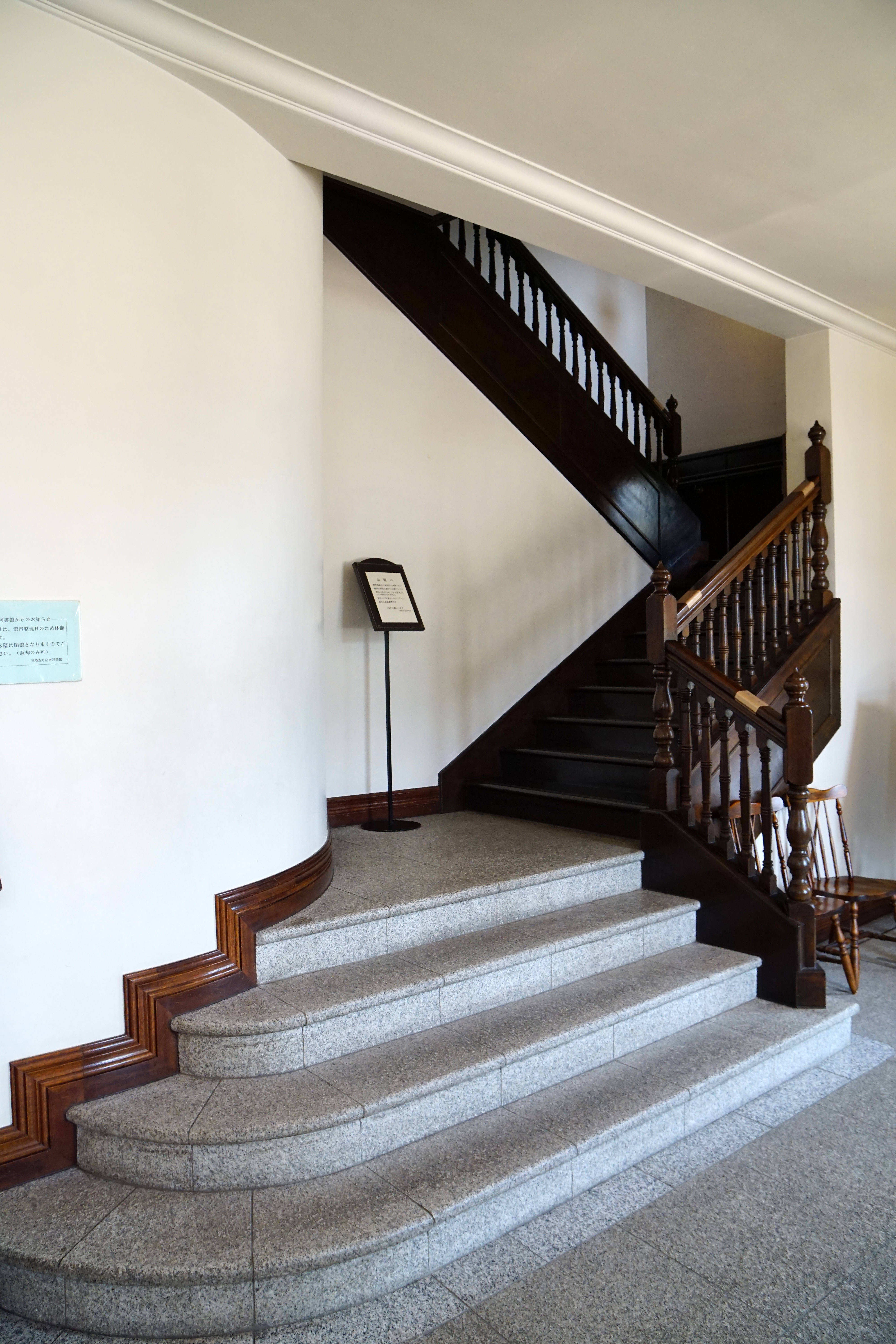 Kitakyushu International Commemorative Library in Kitakyushu, Fukuoka prefecture, Japan.